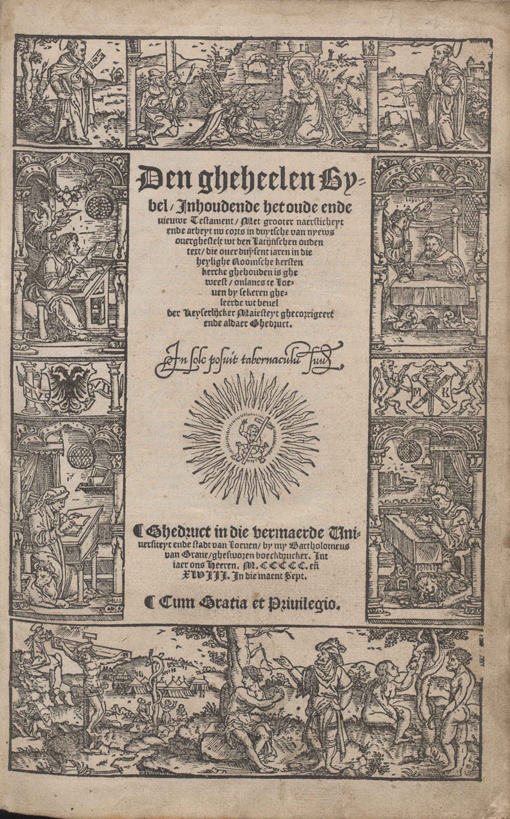 Leuven Bible, 1548, Dutch